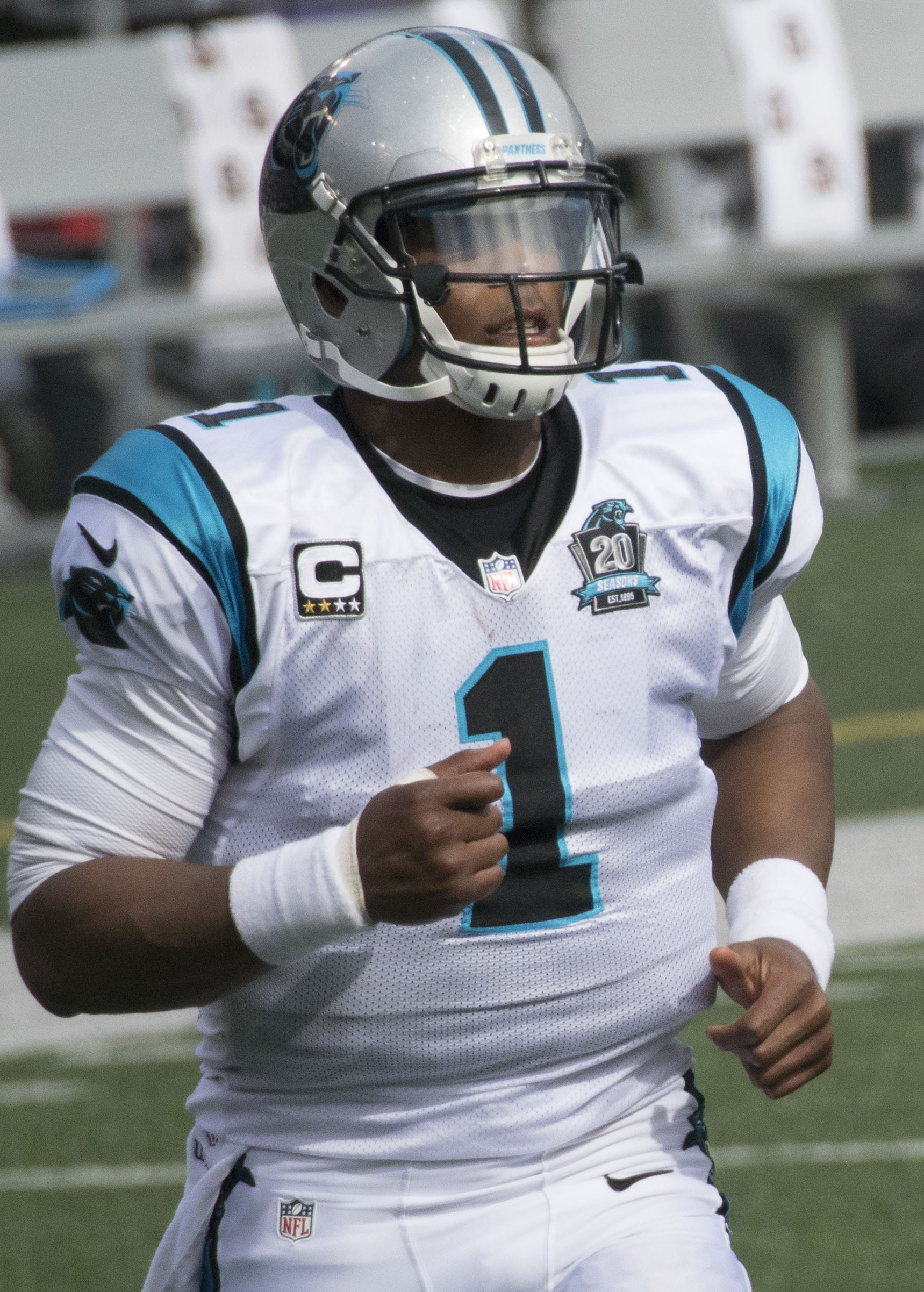 Panthers at Ravens 9/28/14